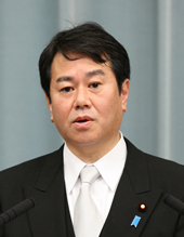 Kazuhiro Haraguchi was inaugurated as Minister for Internal Affairs and Communications on June, 2010.